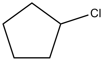 Chlorocyclopentane formula